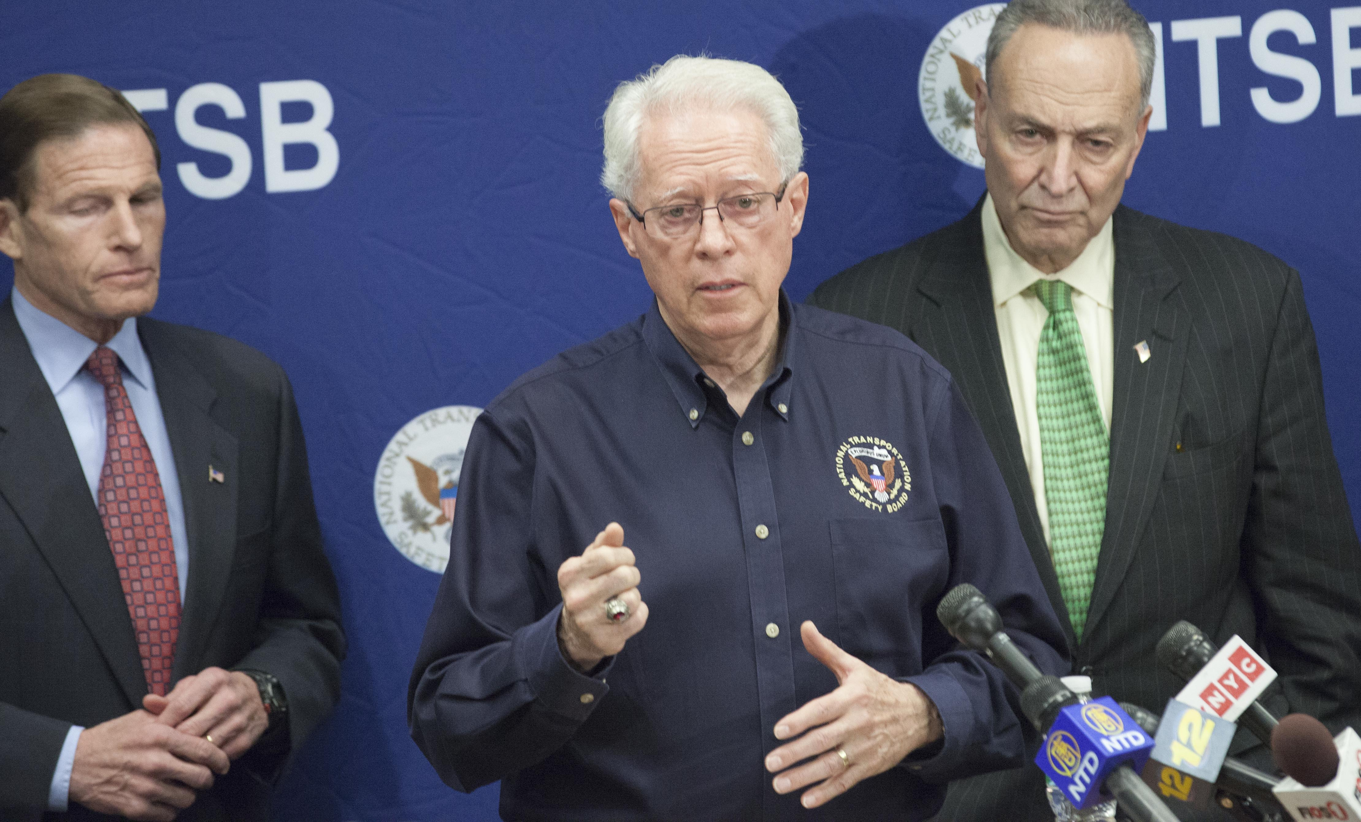 NTSB Board Member Earl Weener briefs the media on the Metro North Train Derailment in Bronx, N.Y.